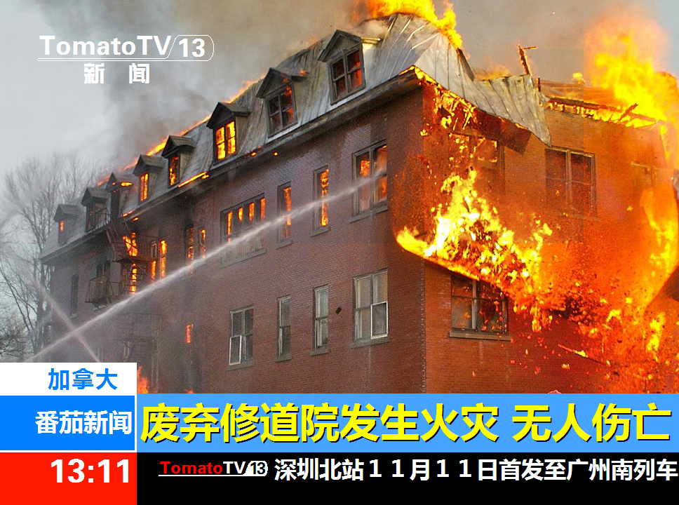 A CCTV-13 news programme simulation image（2009.7.27-）.